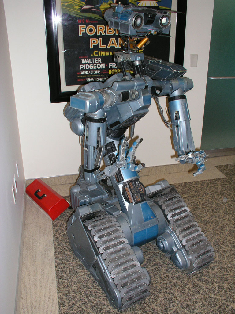 3/4 photo of Johnny 5 robot from the Short Circuit movies, sold on auction for $138,000.